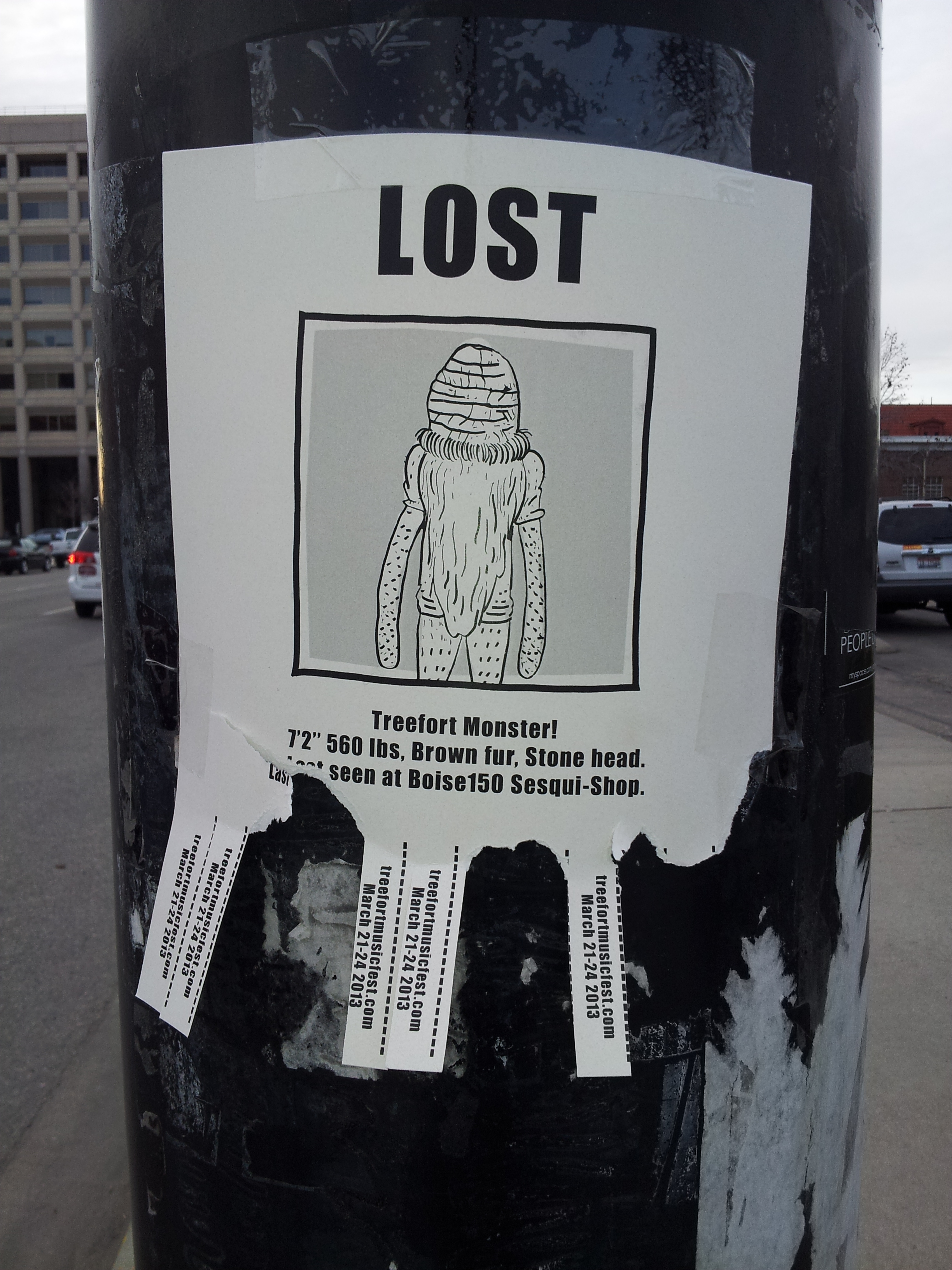 A faux lost notice for Treefort 2013's mascot/monster.